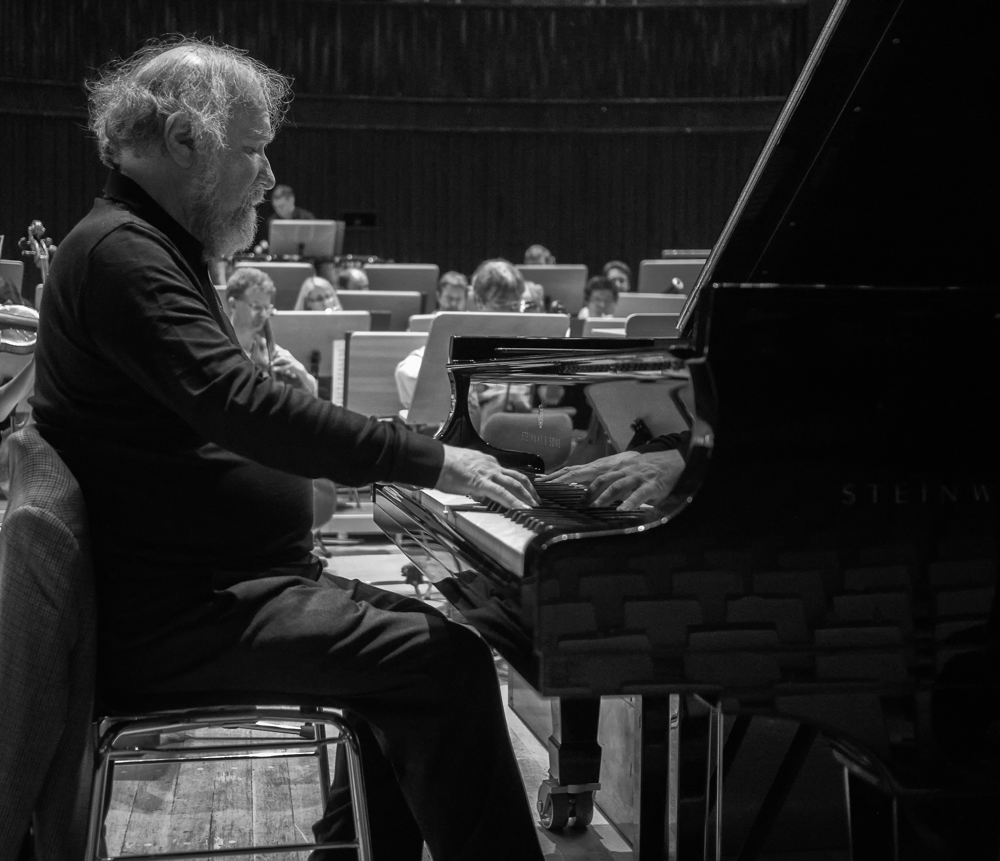 Radu Lupu in the domed hall Hanover